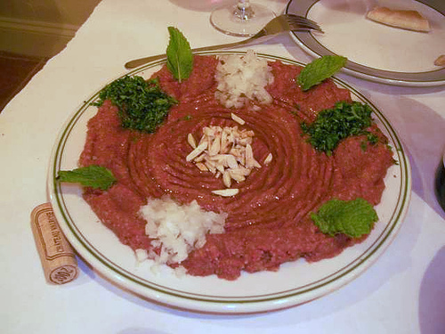 Kibbeh nayyeh is a common Levantine mezze. It is considered to be a traditional dish originating from Northern Lebanon. It consists of minced raw lamb or beef mixed with fine bulgur and spices.